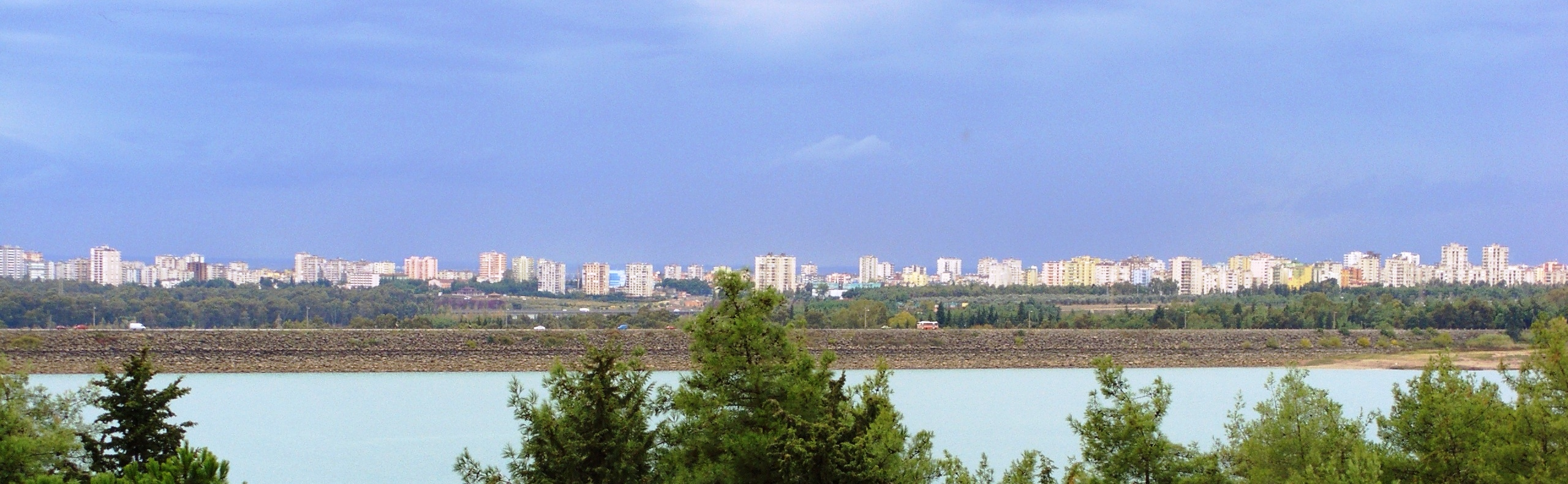 A view from the North part of Adana city which is located in Çukurova region in the East Mediterranean part of Turkey.